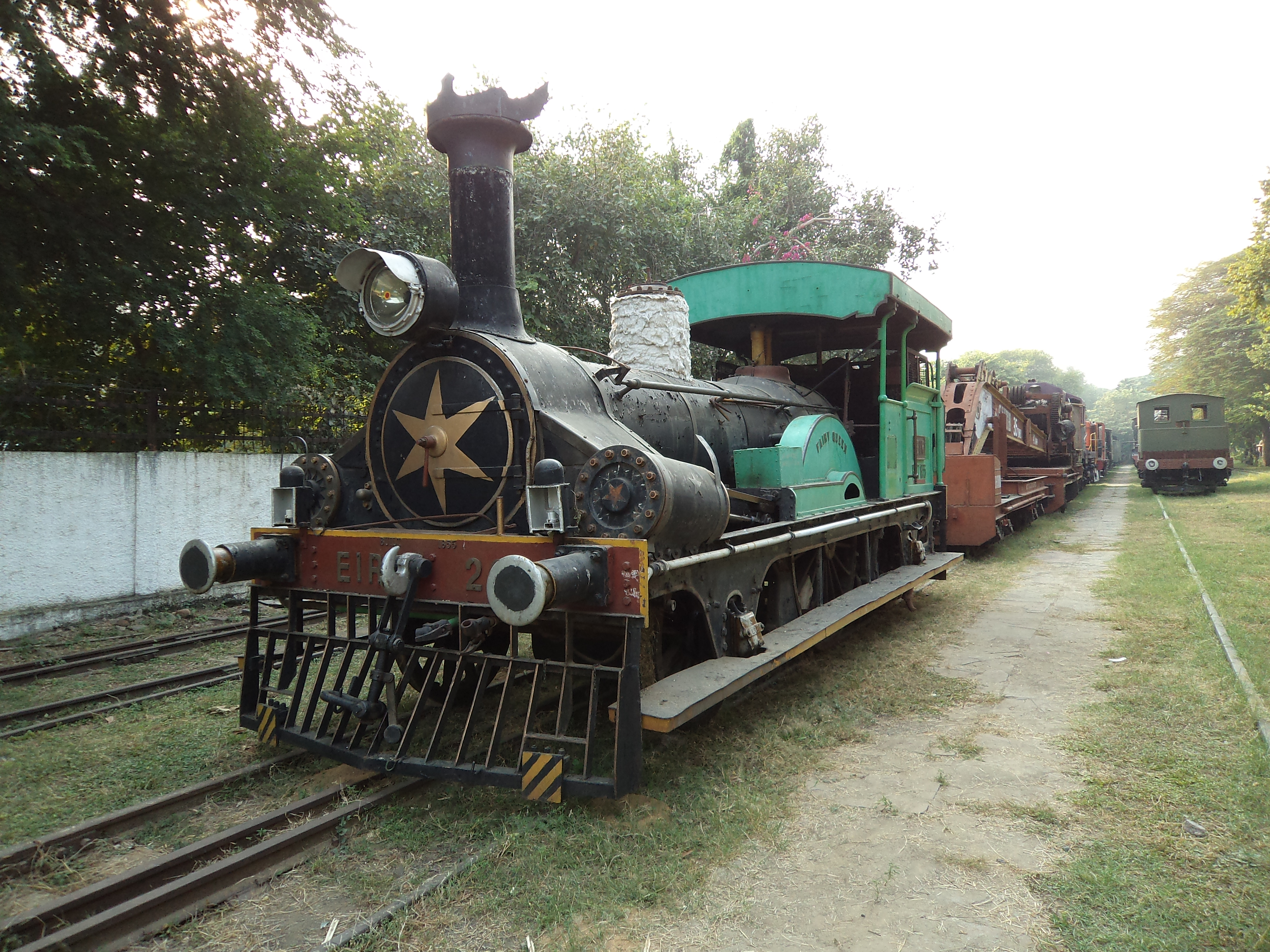 Fairy Queen (built in 1855 by M/S Kitson Thomson & Hewitson in Leeds) was earlier the chief attraction in the National Rail Museum, but ever since it started operating regularly as the world's oldest working steam loco, it was rare to find her in NRM. Theft of the decorative parts brought it once again to NRM before its departure to the workshop and I was lucky enough to grab that opportunity for three consecutive days!